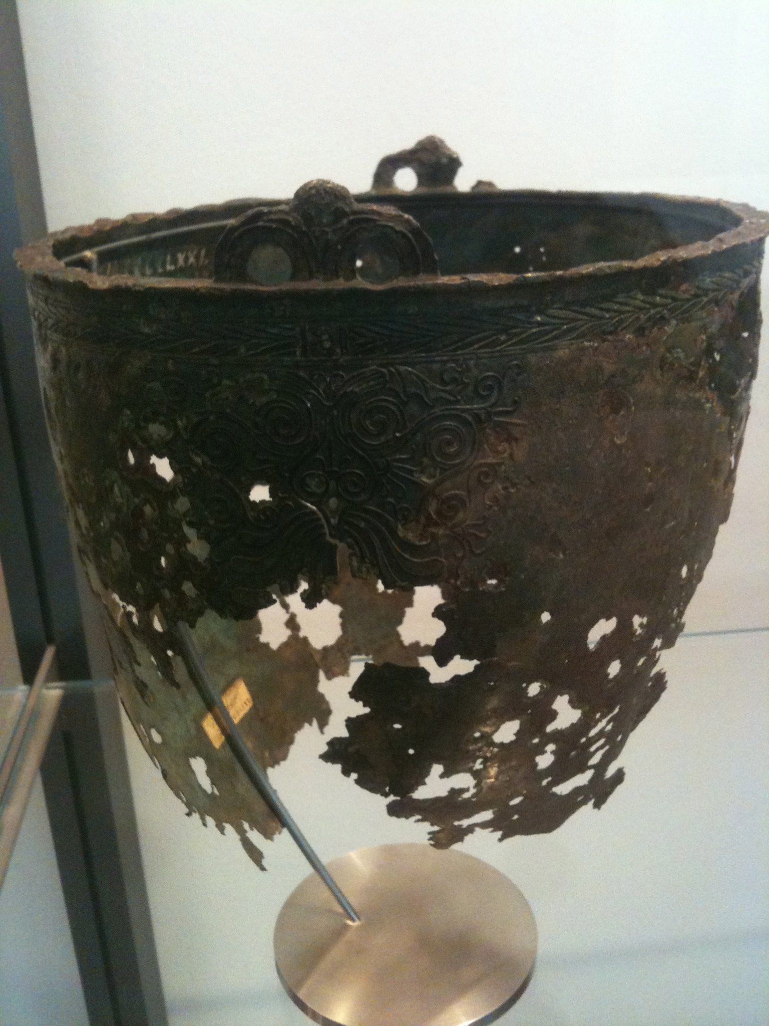 The Keldby bucket